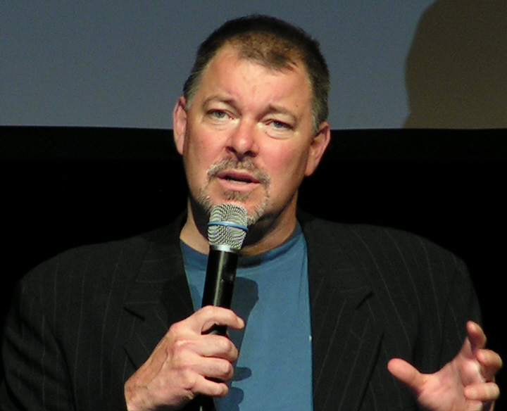 Jonathan Frakes on Galileo 7.9 Convention (Neuss, Germany)